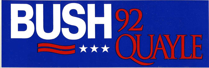 Bush Quayle bumper sticker.